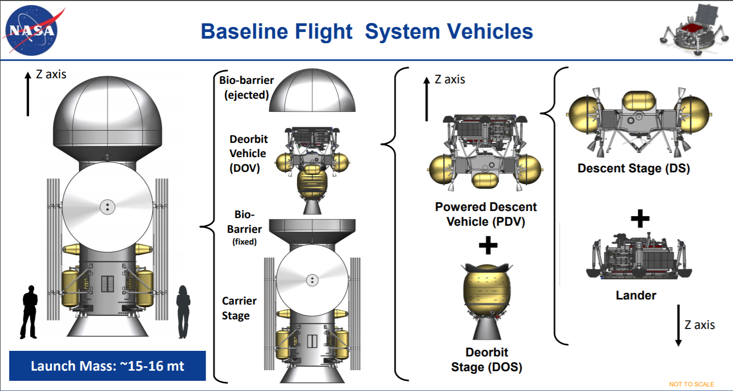 Europa Lander specs